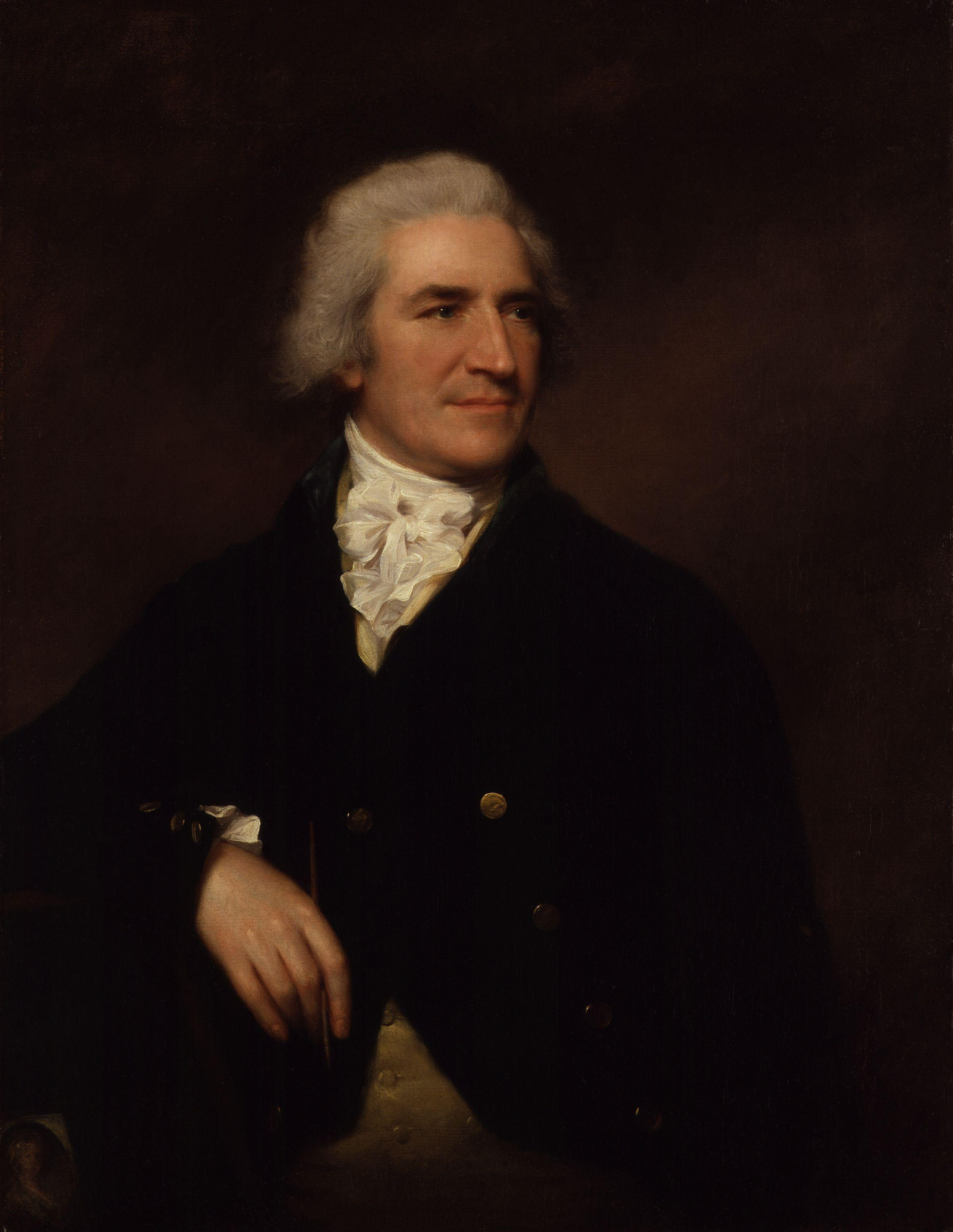 John Smart, by unknown artist. All images in this batch have an unknown author, but there is strong evidence it was first published before 1923 (based mainly on the NPG's estimated date of the work).